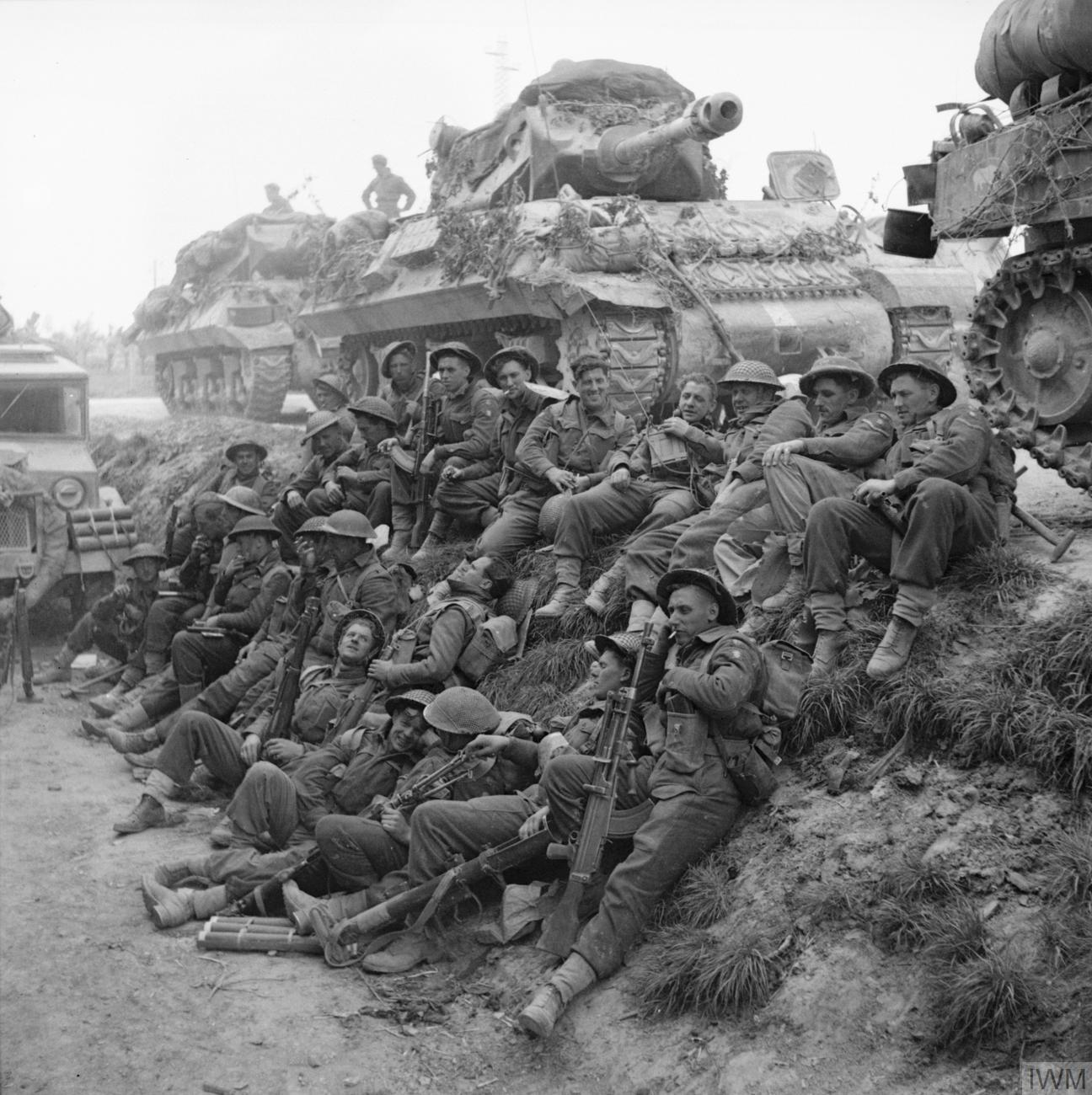 The British Army in Italy 1945 Men of the 2nd Lancashire Fusiliers, supported by Achilles 17pdr tank destroyers, wait to go forward near Ferrara, 22 April 1945.